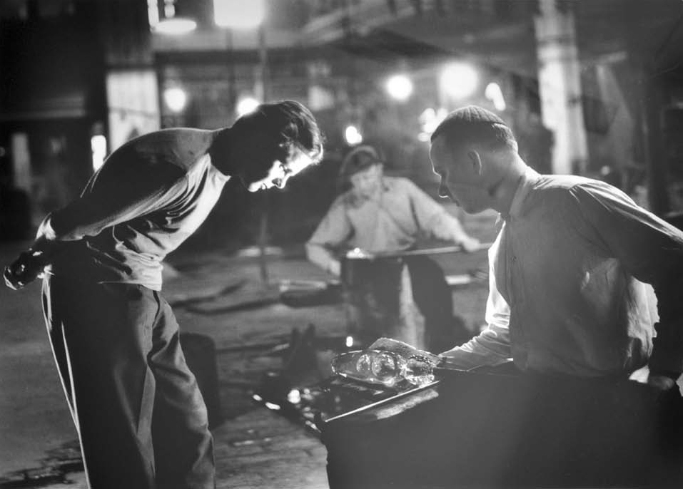 Photograph of the Finnish designer Timo Sarpaneva (1926–2006) with glassmith Helge Nieminen at Iittala glassworks.